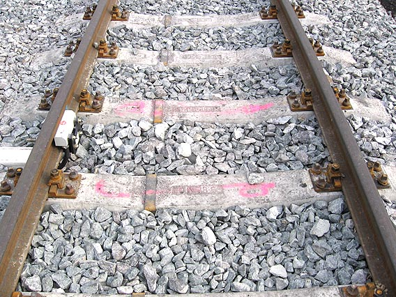 anchored sleepers - steel bands show using sleeper anchor to stabilize the position of the track in the curve